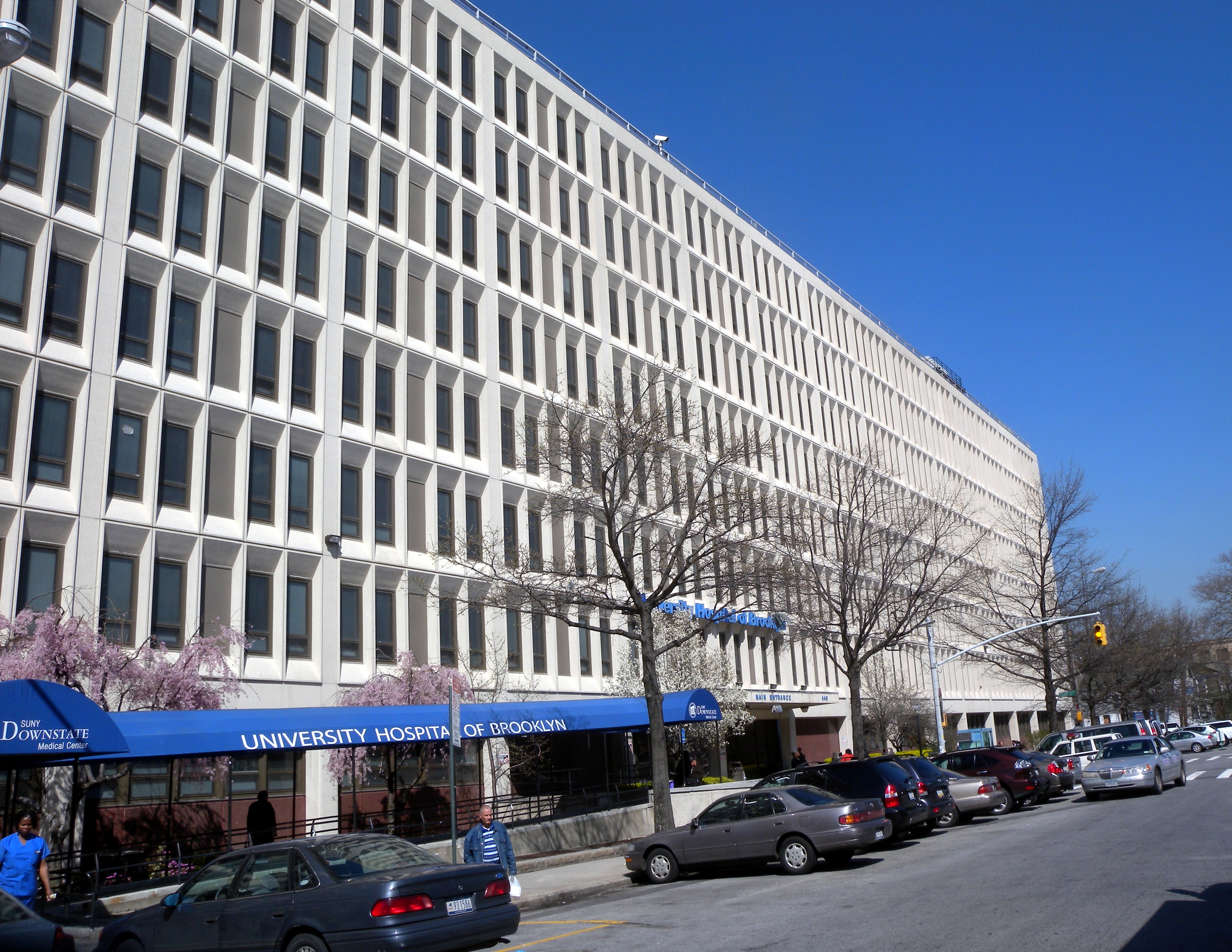 Looking northeast across Lenox Avenue at University Hospital on a sunny afternoon.